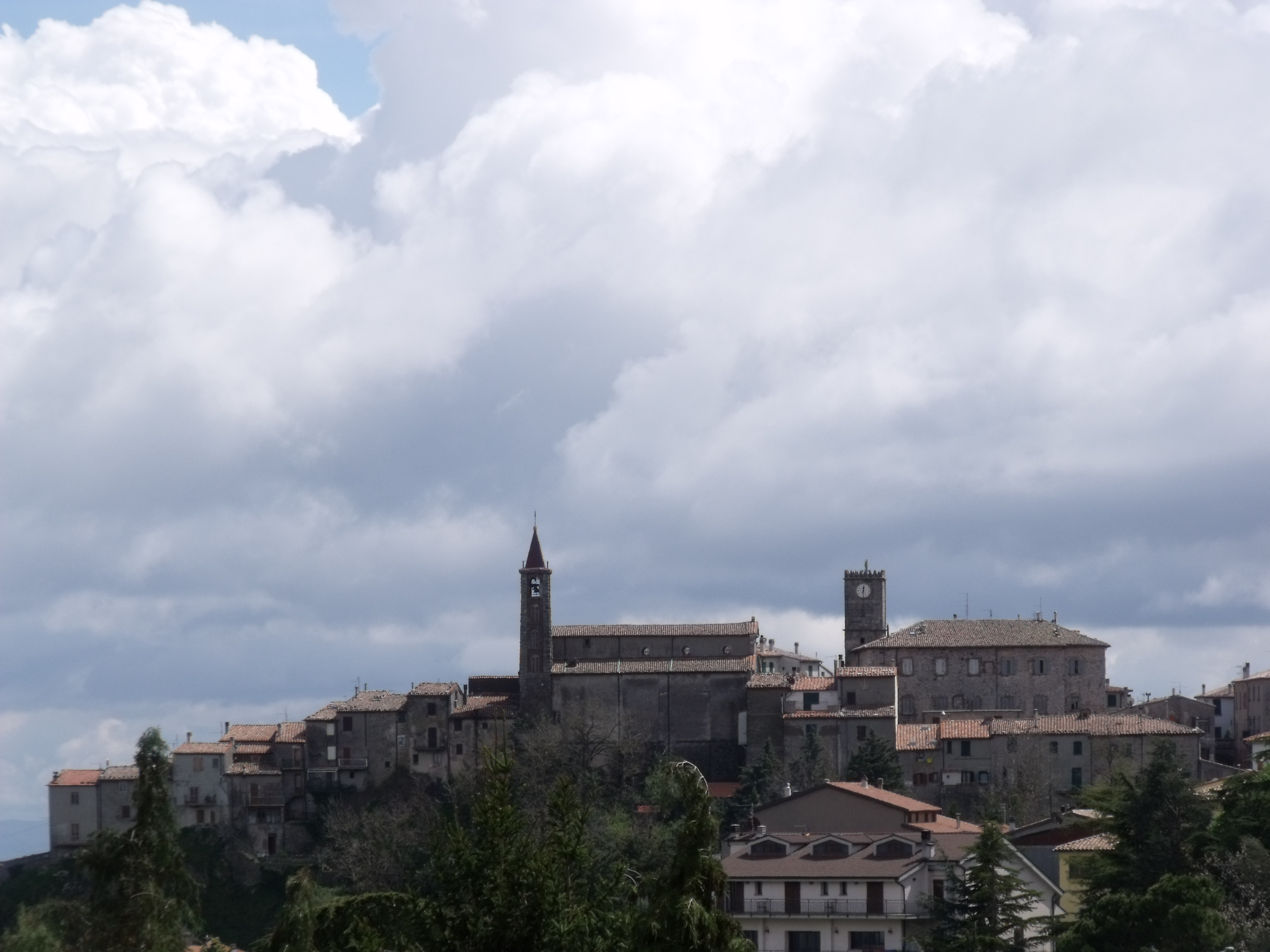 Panorama of Castell’Azzara, Province of Grosseto, Tuscany, Italy